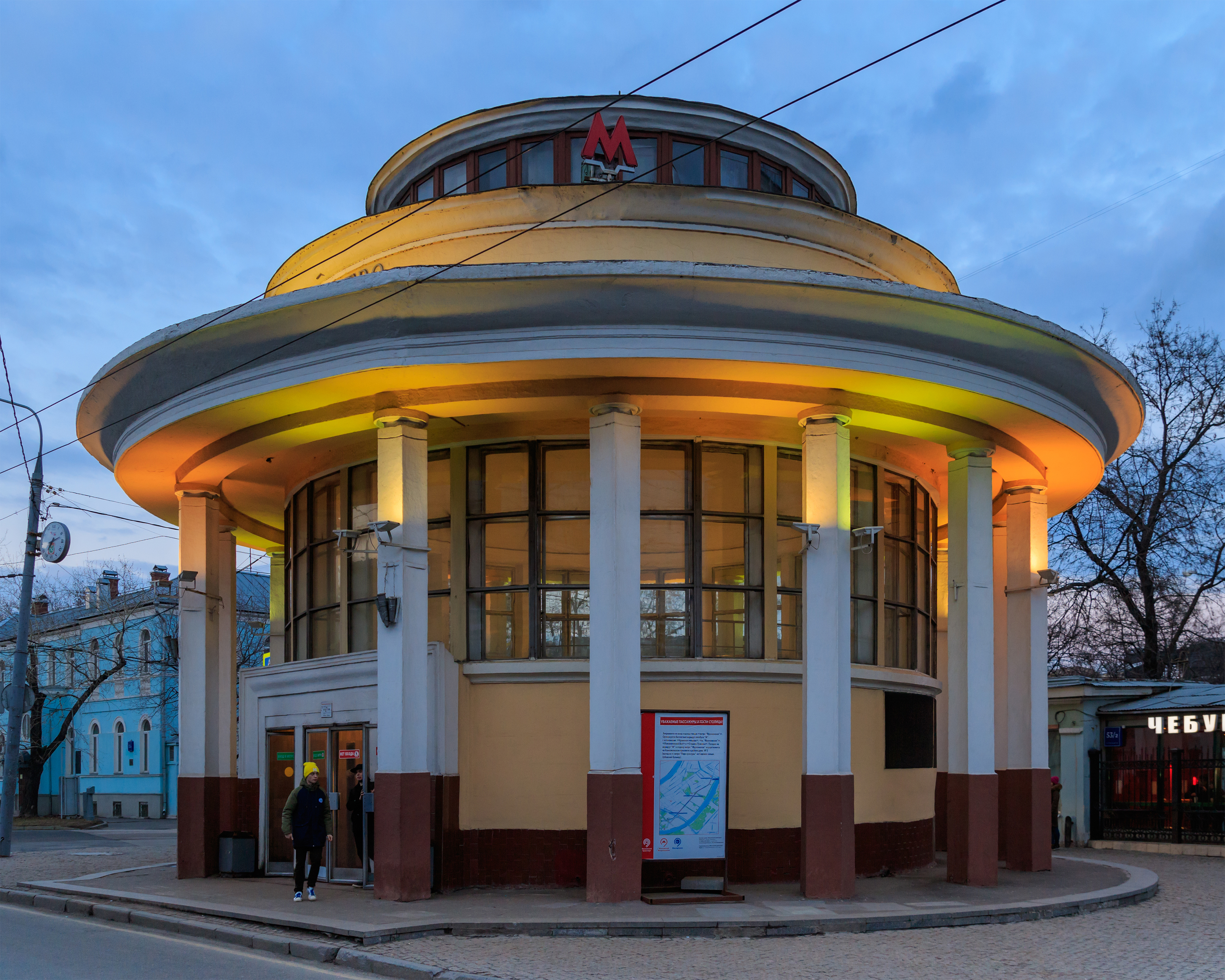 Entrance pavilion of Park Kultury (Red Line) metro station. Moscow, Russia.